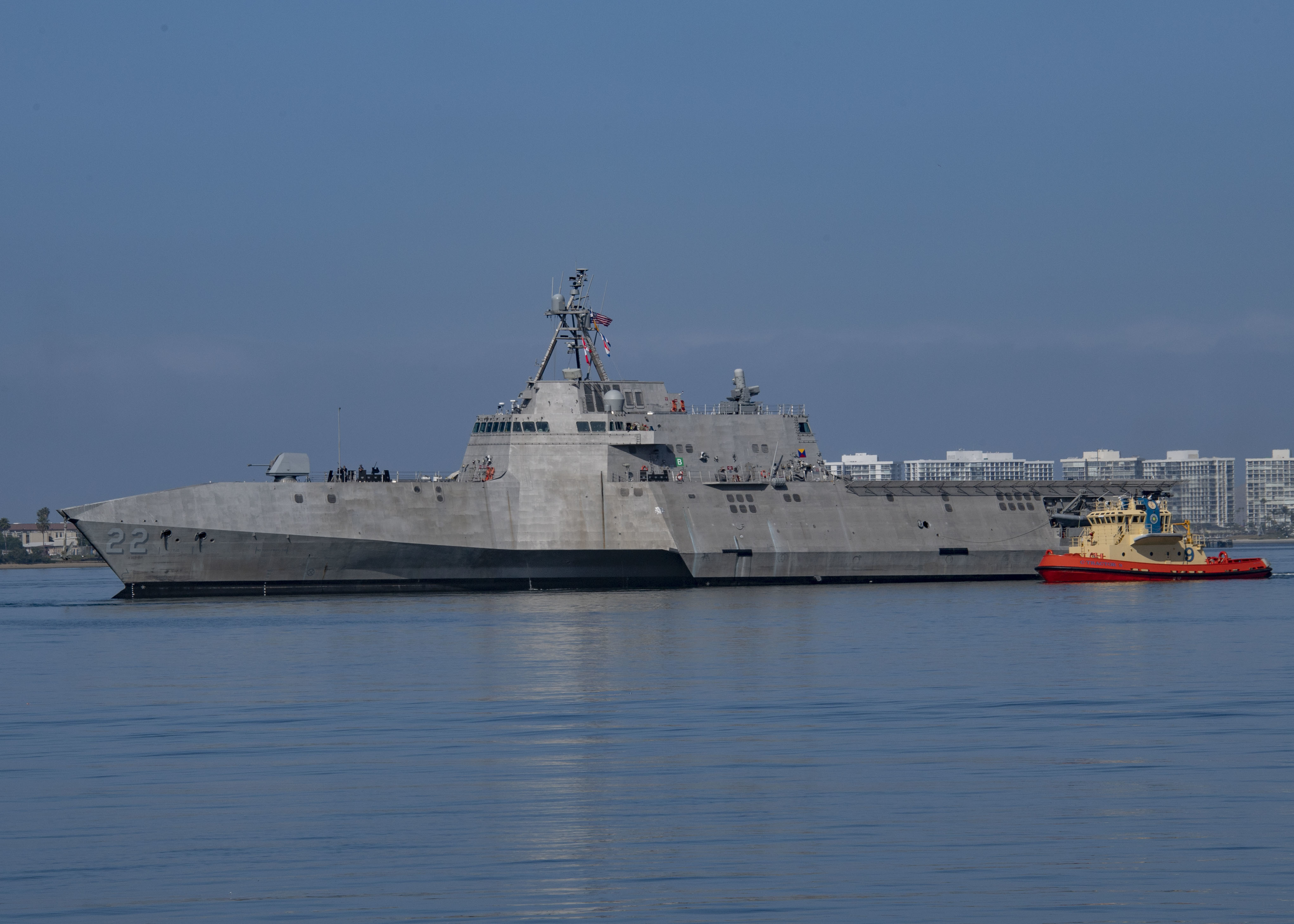 200524-N-OA516-1011 SAN DIEGO (May 24, 2020) The Navy's newest Independence-variant littoral combat ship, the future USS Kansas City (LCS 22), arrives at its new homeport at Naval Base San Diego. The Navy will commission Kansas City, the second ship in naval history to be named after the city, June 20, 2020, via naval message due to public health safety and restrictions of large public events related to the novel coronavirus (COVID-19) pandemic. (U.S. Navy photo by Mass Communication Specialist 3rd Class Kevin C. Leitner/Released)